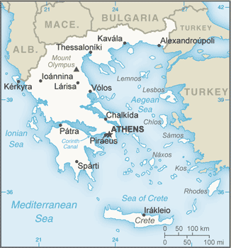 Map of Greece, with English text, from CIA World Factbook Hebrew German Spanish Dutch Swedish Hungarian